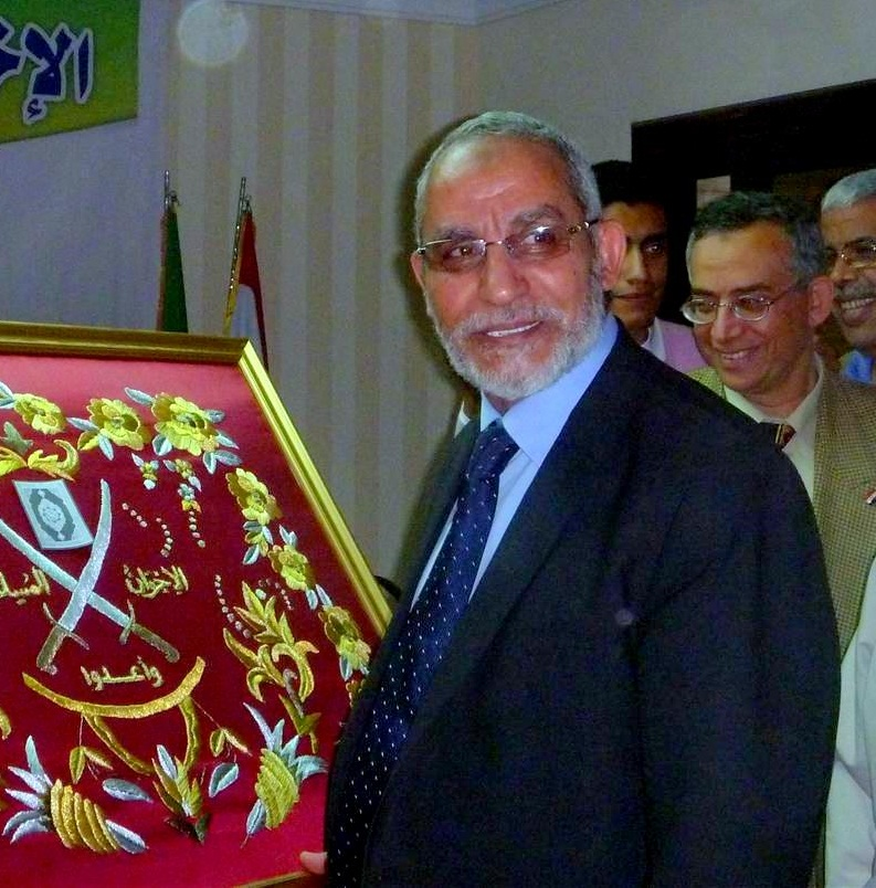 Mr. Mohamed Badia -General Guide of Muslim Brotherhood- during opening ceremony of Alexandria Muslim Brotherhood main office